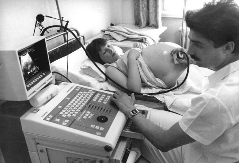 A pregnant woman, who is expecting twins, at the Women's Clinic of Leipzig's Karl Marx University. Before the birth, specialist Dr. Renaldo Faber and his colleagues used the Doppler ultrasound method to check the red blood cells in mother and child. The hospital has a perinatal center specializing in the care of premature babies (including twins and multiple births).